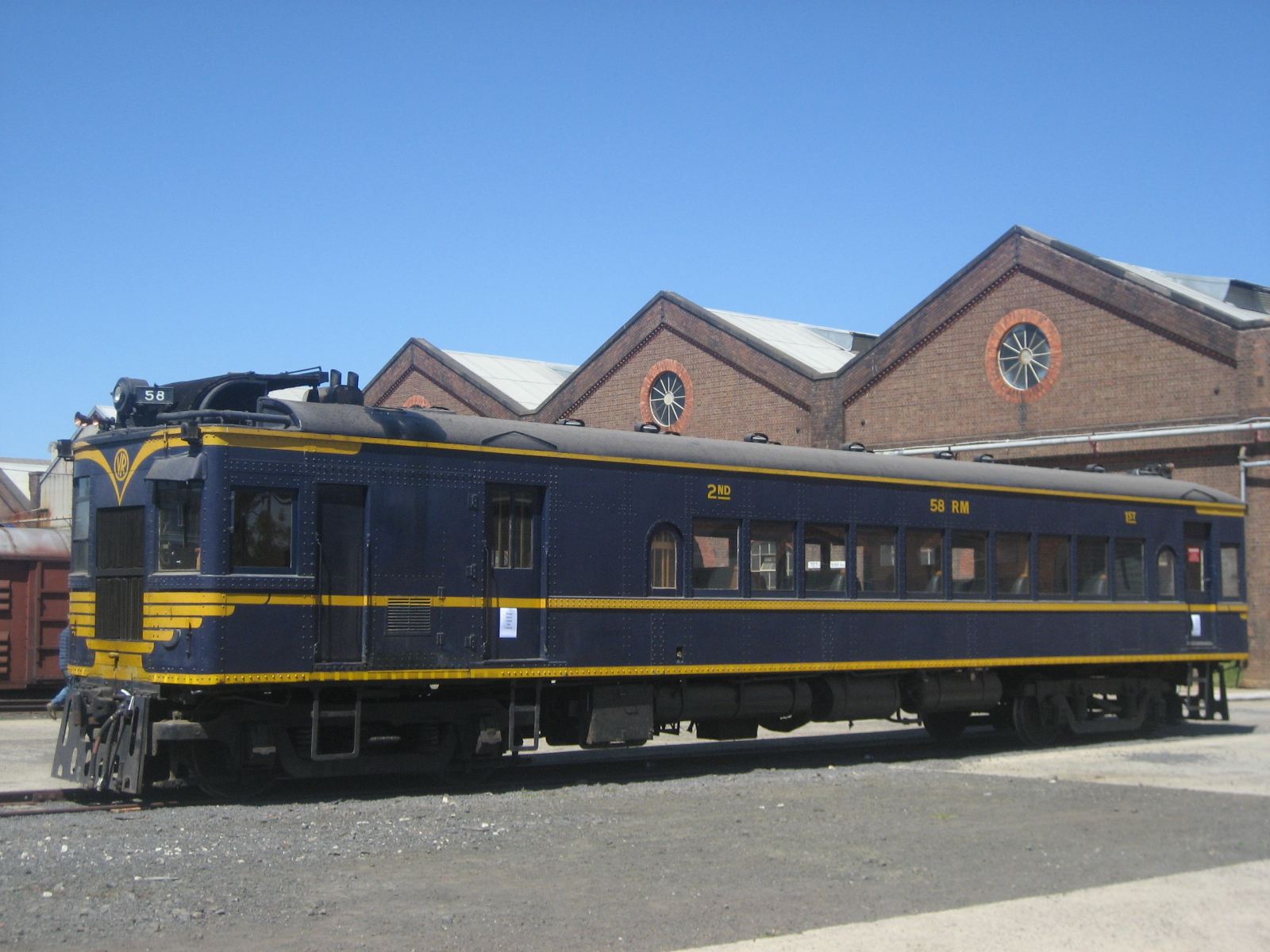 DERM 58RM at Newport Workshops.